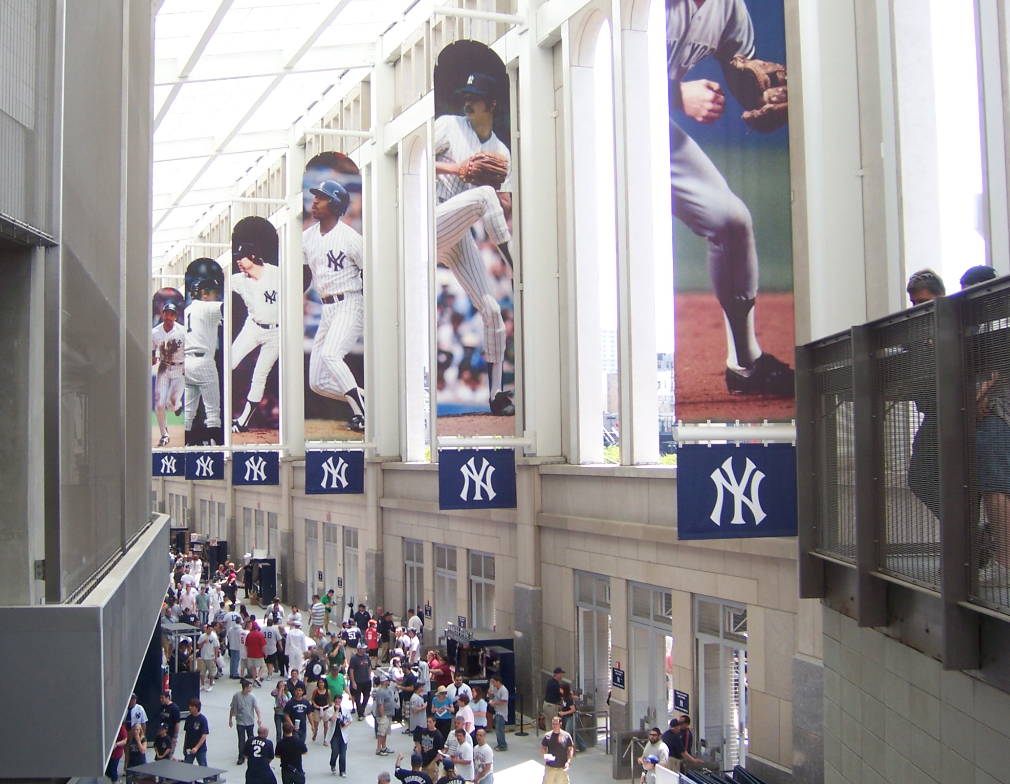 The Great Hall concourse of the new Yankee Stadium, before an interleague baseball game between the Philadelphia Phillies and the New York Yankees